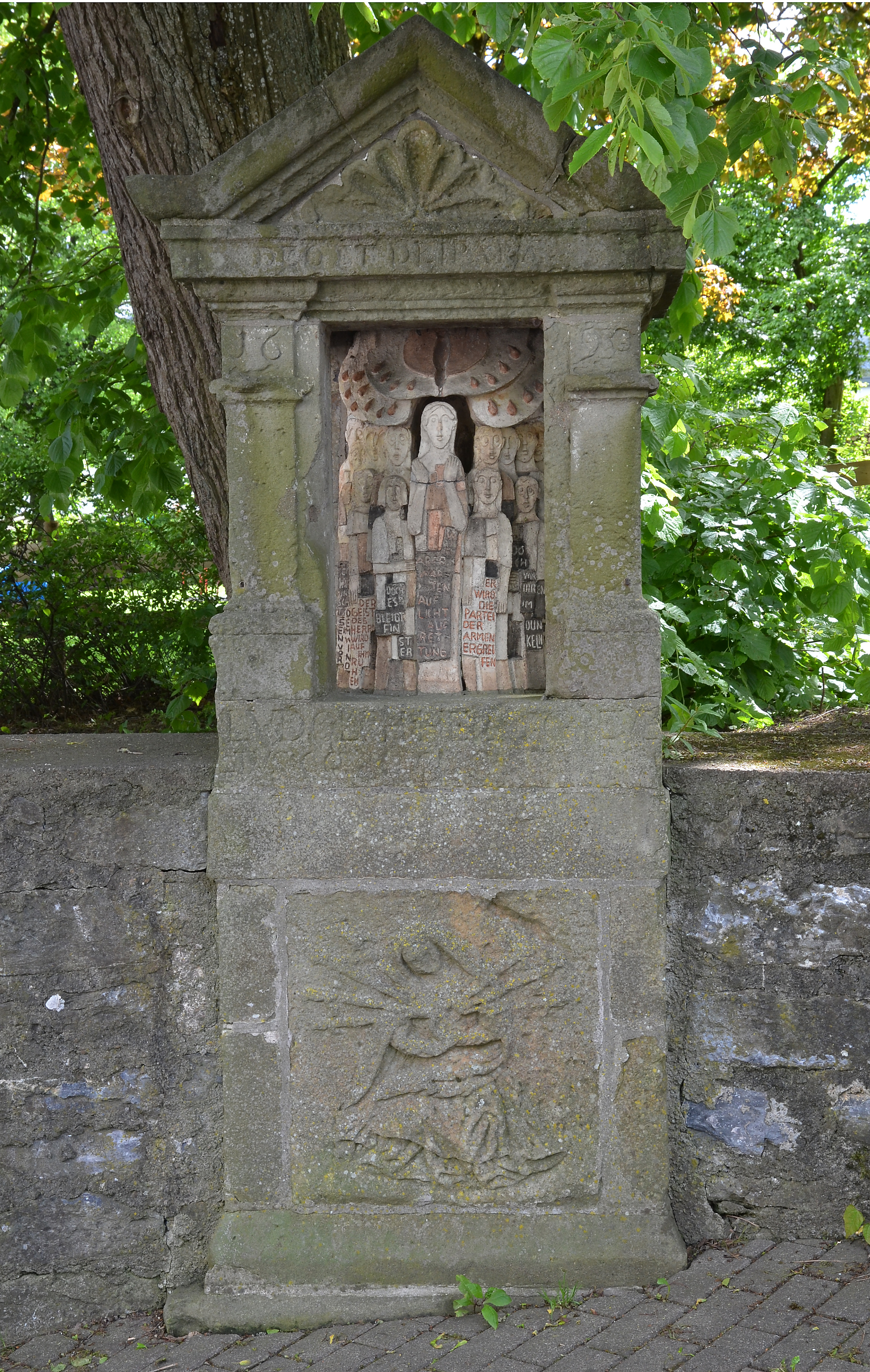 Wayside shrines of 1690, Am Kalvarienberg, Brilon, Germany This image shows a heritage building in Germany, located in the North Rhine-Westphalian city Brilon.